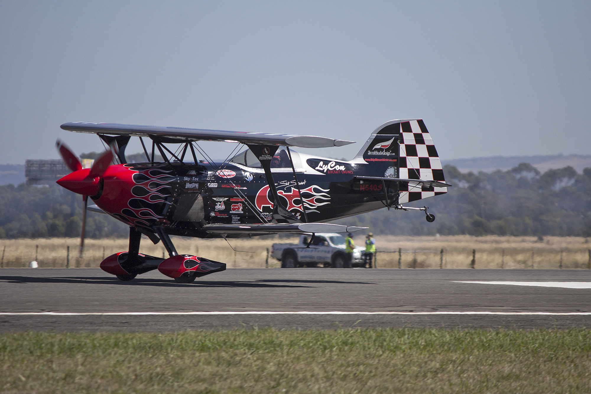 Skip Stewart landing his Pitts S-2S Special (N540S) after a display at the 2013 Avalon Airshow.